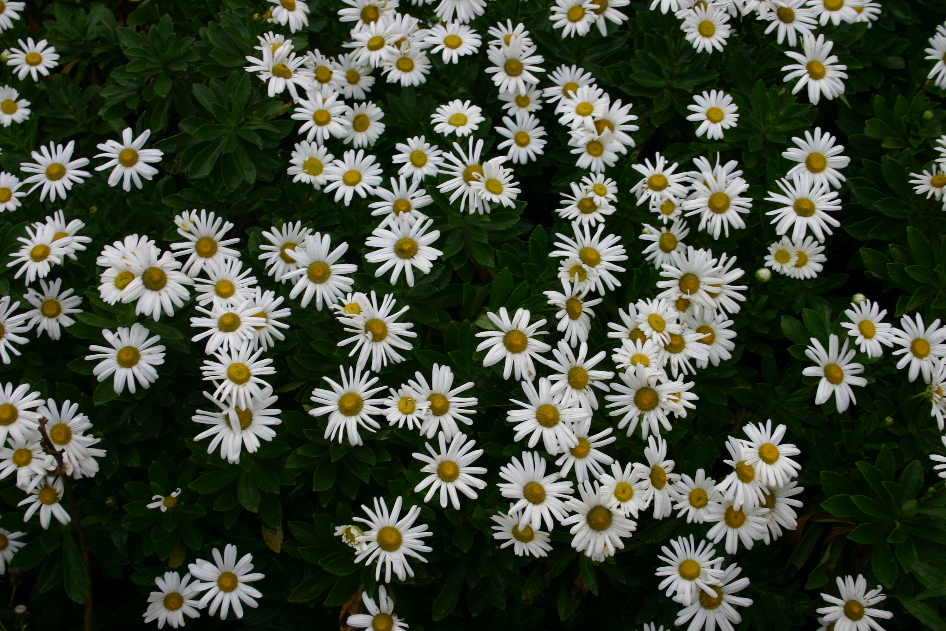 Nipponanthemum nipponicum